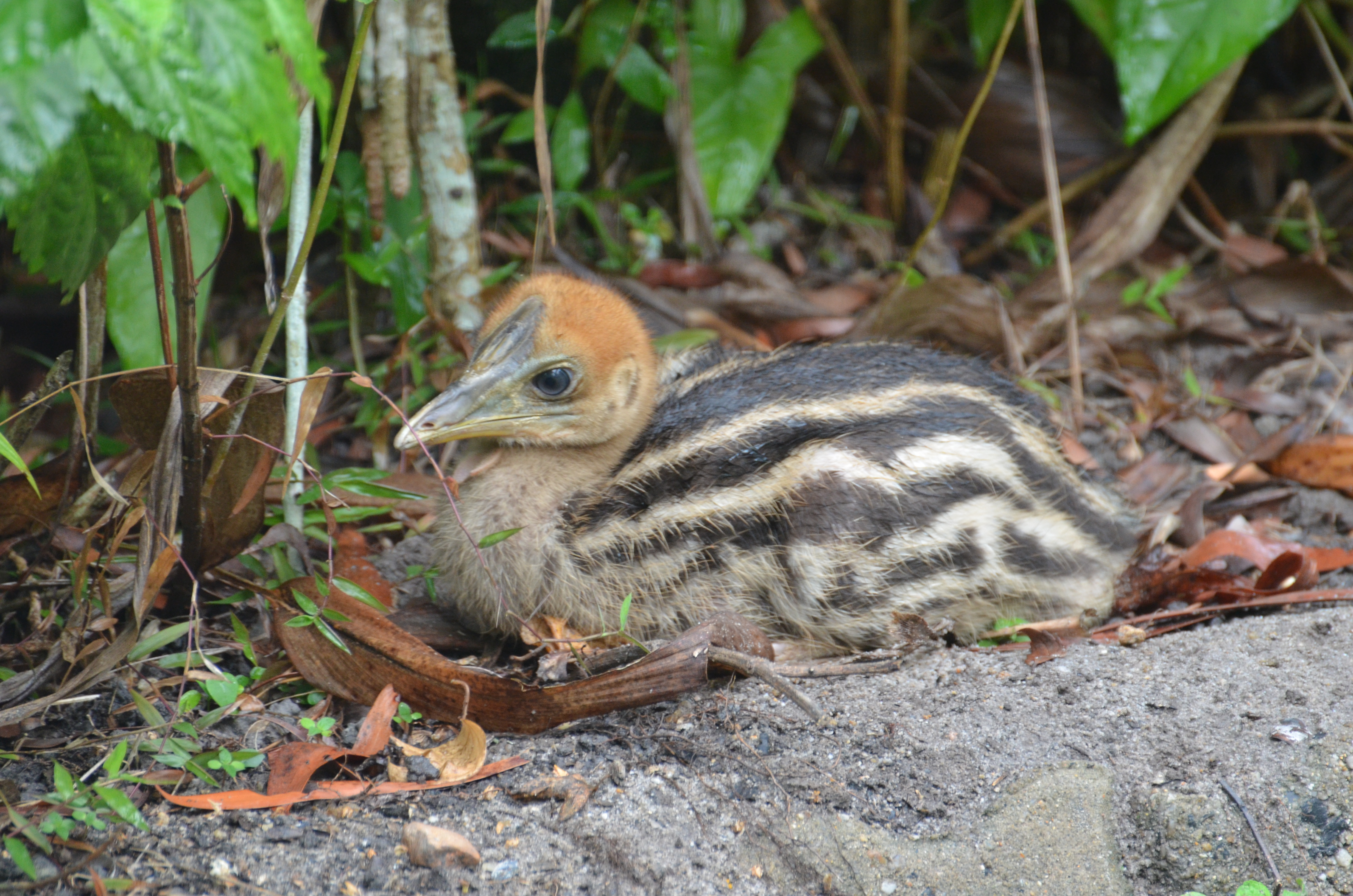 A Cassowary chick which hatched in November 2012 at Wongaling Beach FNQ.